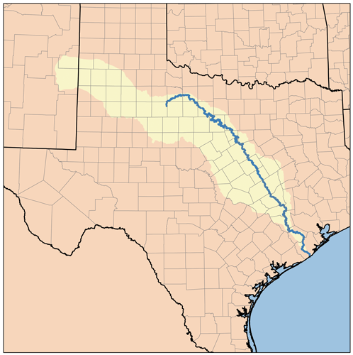 This is a map of the Brazos River Watershed. I, Karl Musser, created it based on USGS data.